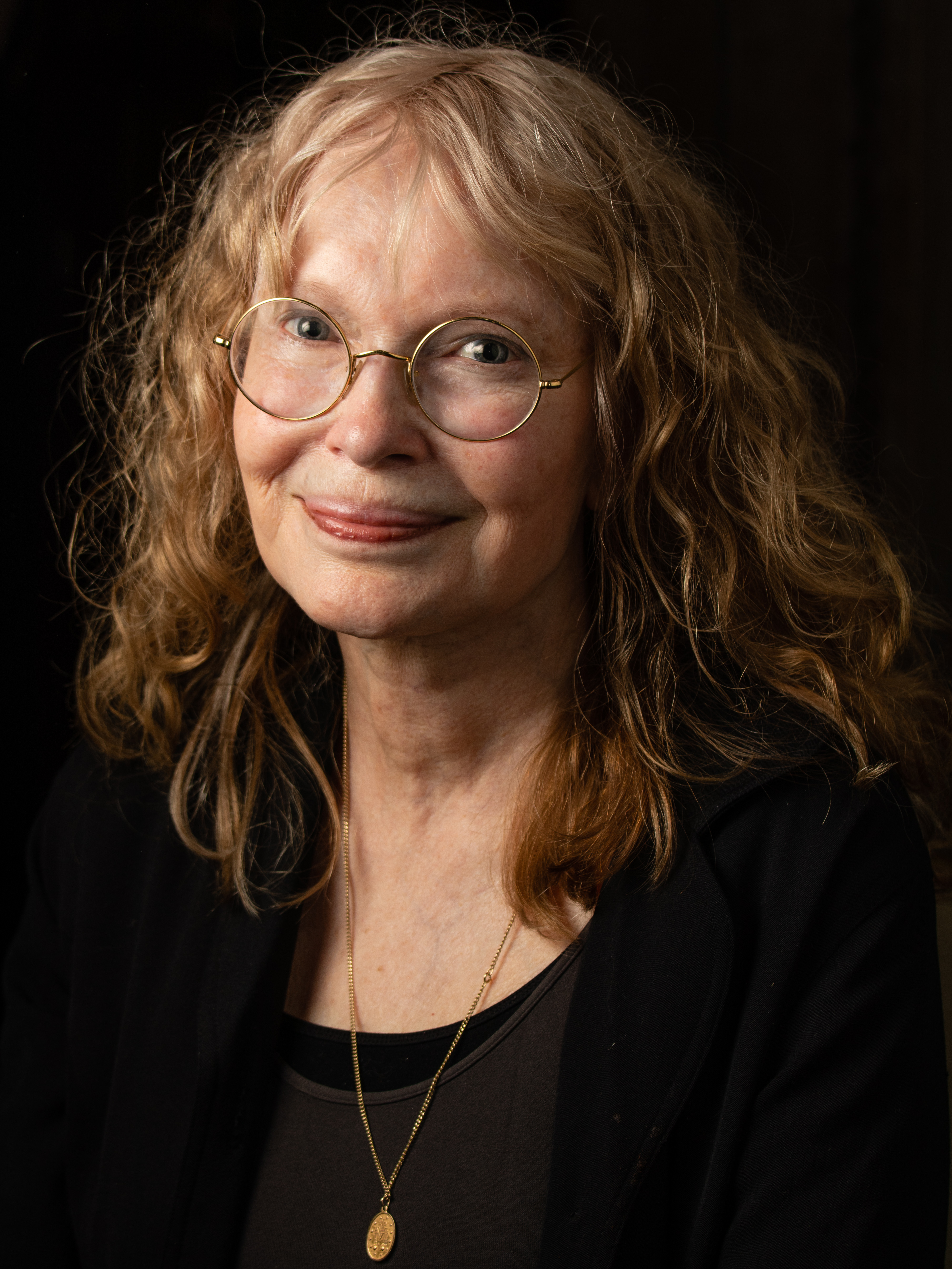 Mia Farrow at the 2018 Pulitzer Prizes awards ceremony